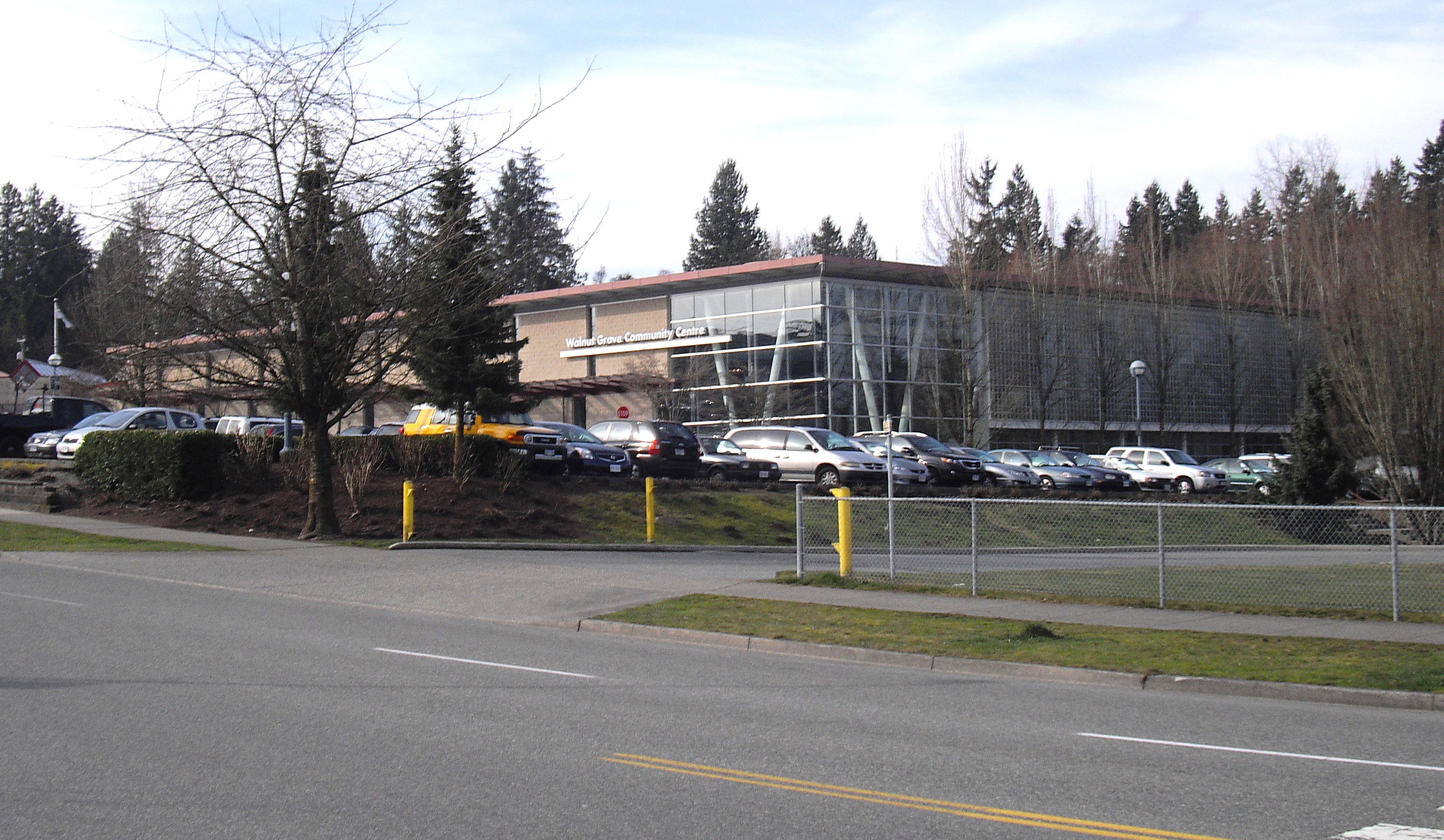 Community Centre in Walnut Grove Neighbourhood - Langley, BC